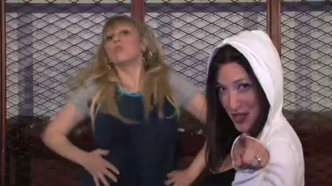 Irina Slutsky dancing behind Randi Zuckerberg, who is singing about the iPhone in a parody music video.